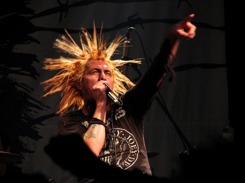 The Casualties, New York punk band, during "Under Attack. European Tour 2007" gig in Polish city Gdynia.